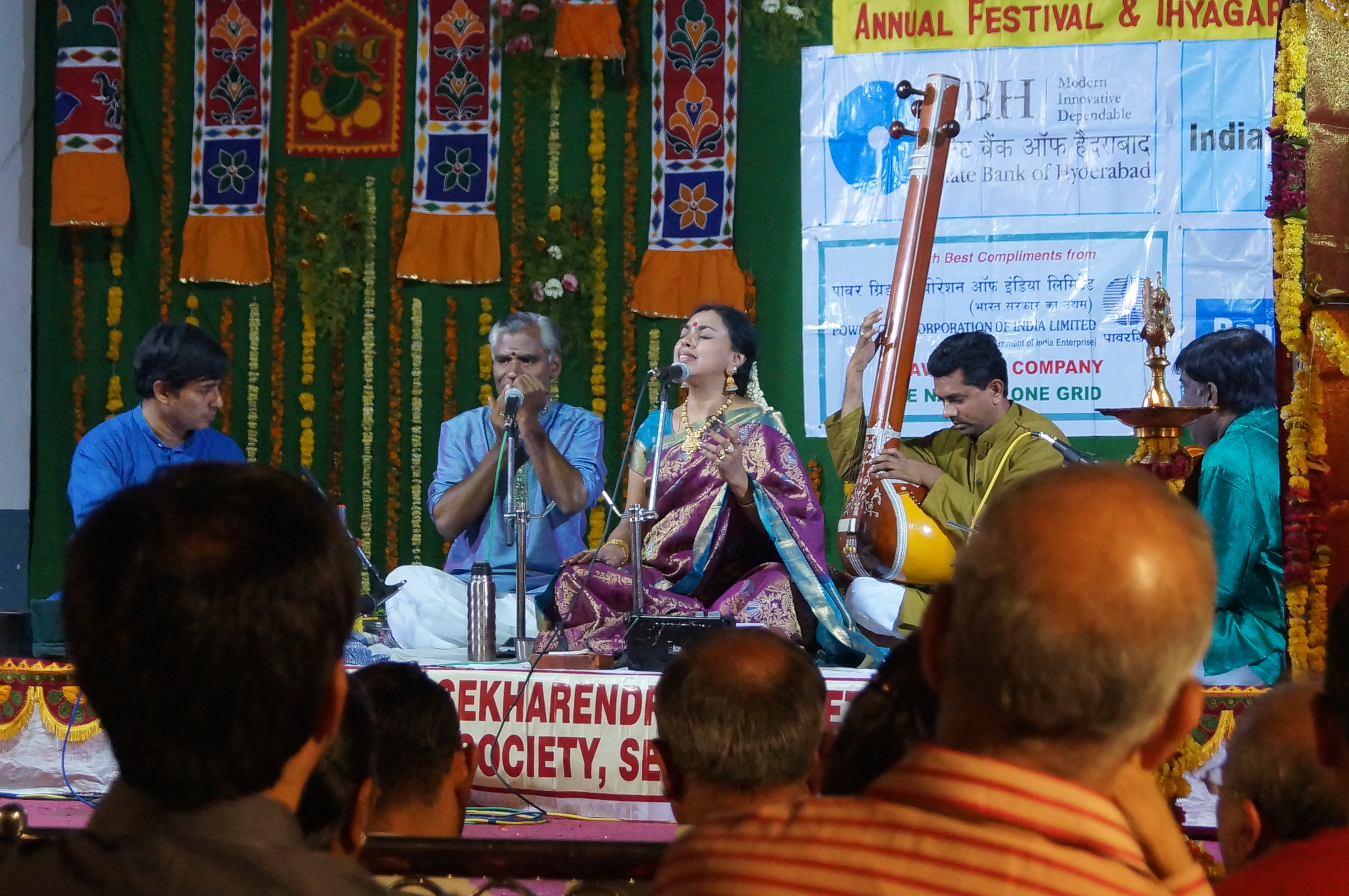 Sudha Ragunathan singing at the SCSES Annual Music Festival, February 9,2013